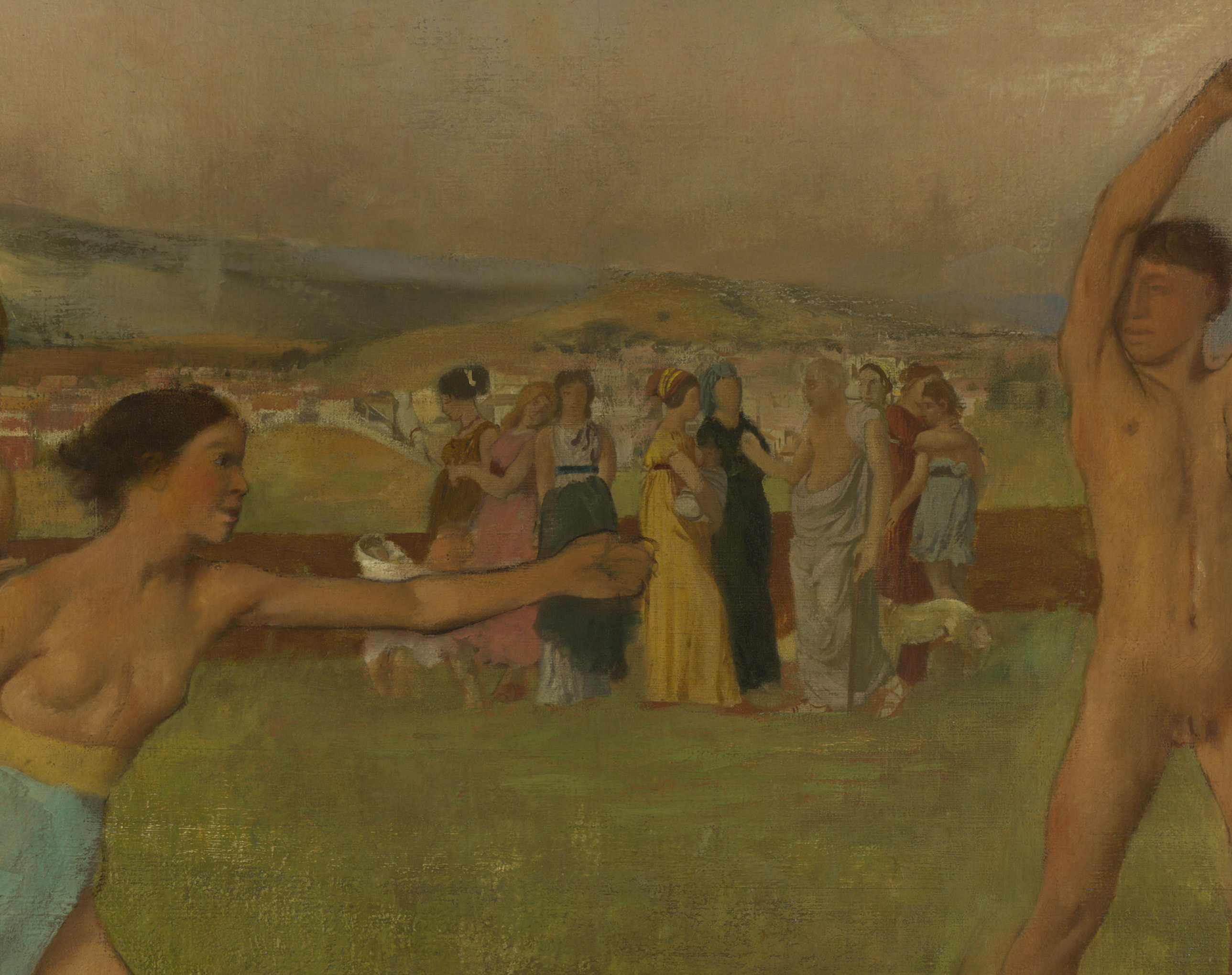 Edgar Degas, Young Spartans, detail